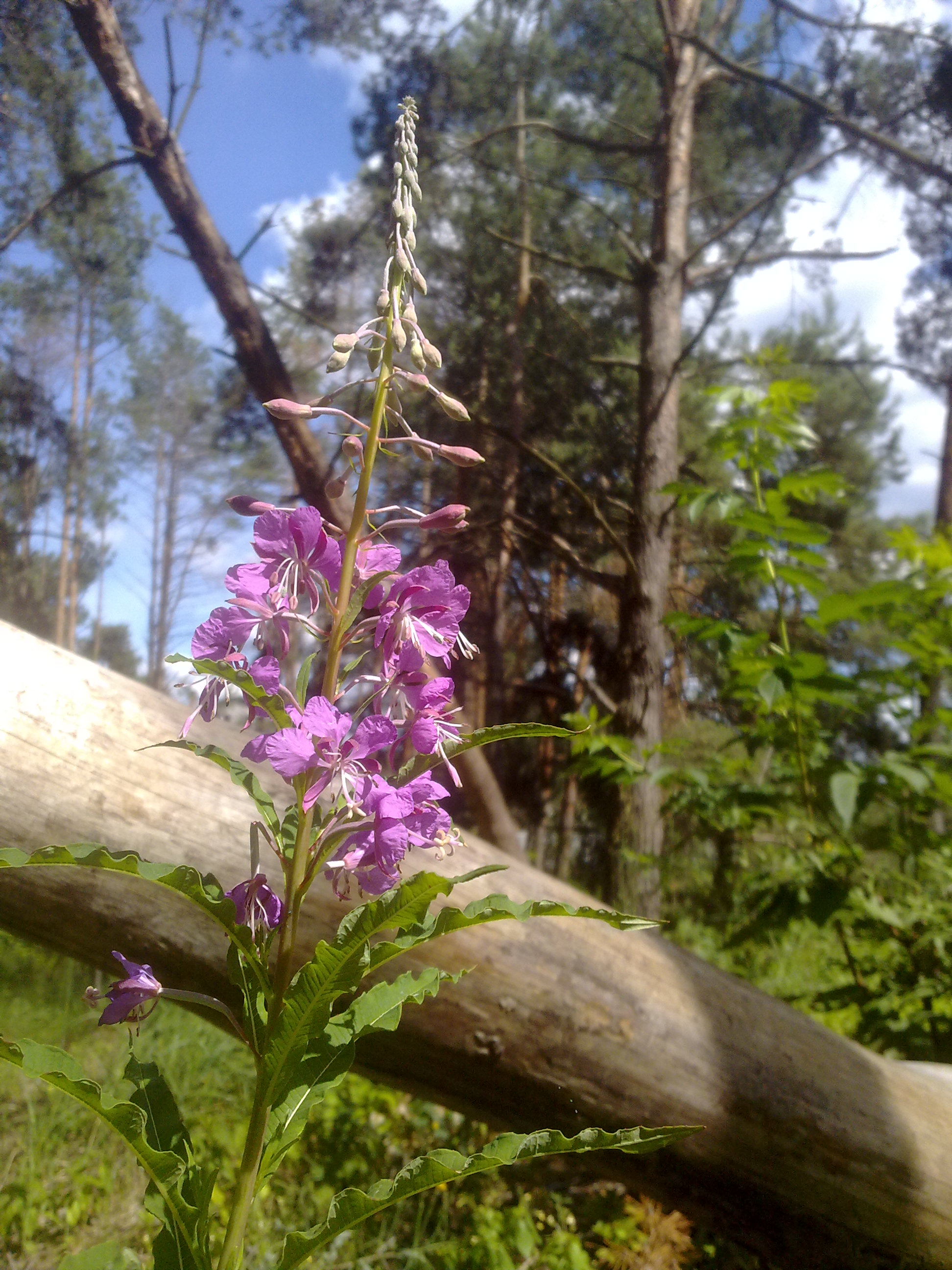 On the photo Chamaenerion angustifolium. Herb was found in pine forest on the North of Ukraine.